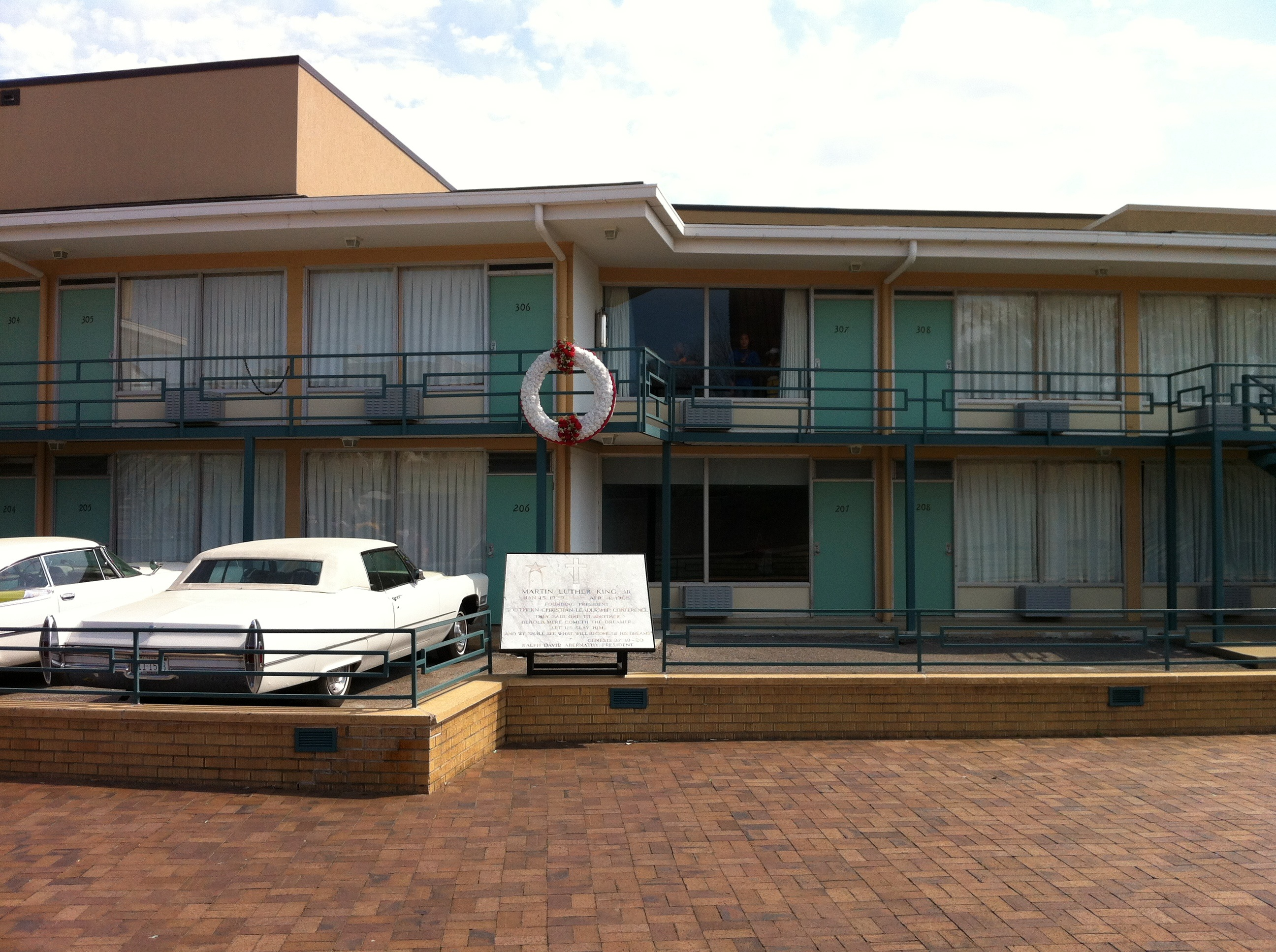 W-E View of the site of the assassination of Martin Luther King, Jr. at the Lorraine Motel, part of the National Civil Rights Museum in Memphis, TN. The wreath marks the approximate site.